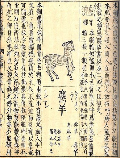 Wakan Sansai Zue entry on the Japanese serow (106)